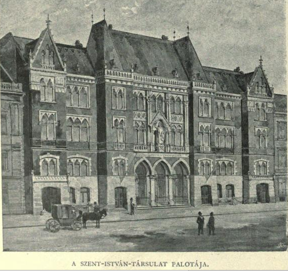 Head office of the Szent István Társulat